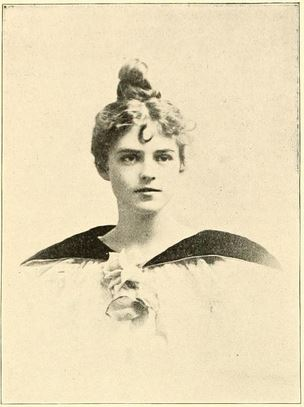 Mable Clare Money